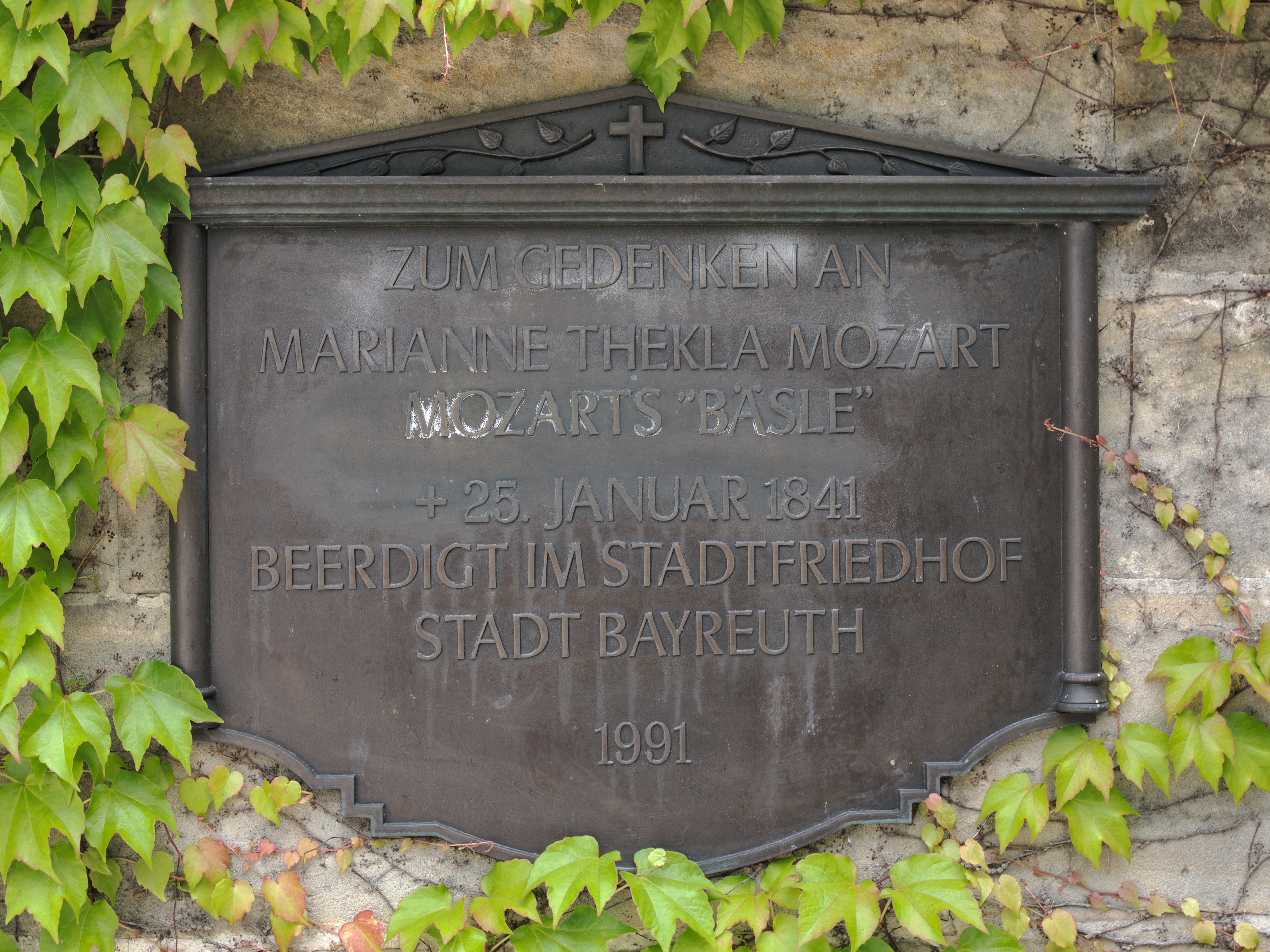 Plaque remembering Maria Anna Thekla Mozart on the Stadtfriedhof (city cemetry) Bayreuth.